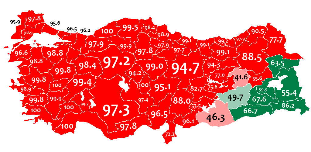 This map shows the distribution of people who spoke Turkish or Kurdish in 1965's Turkey, depending on the majority.